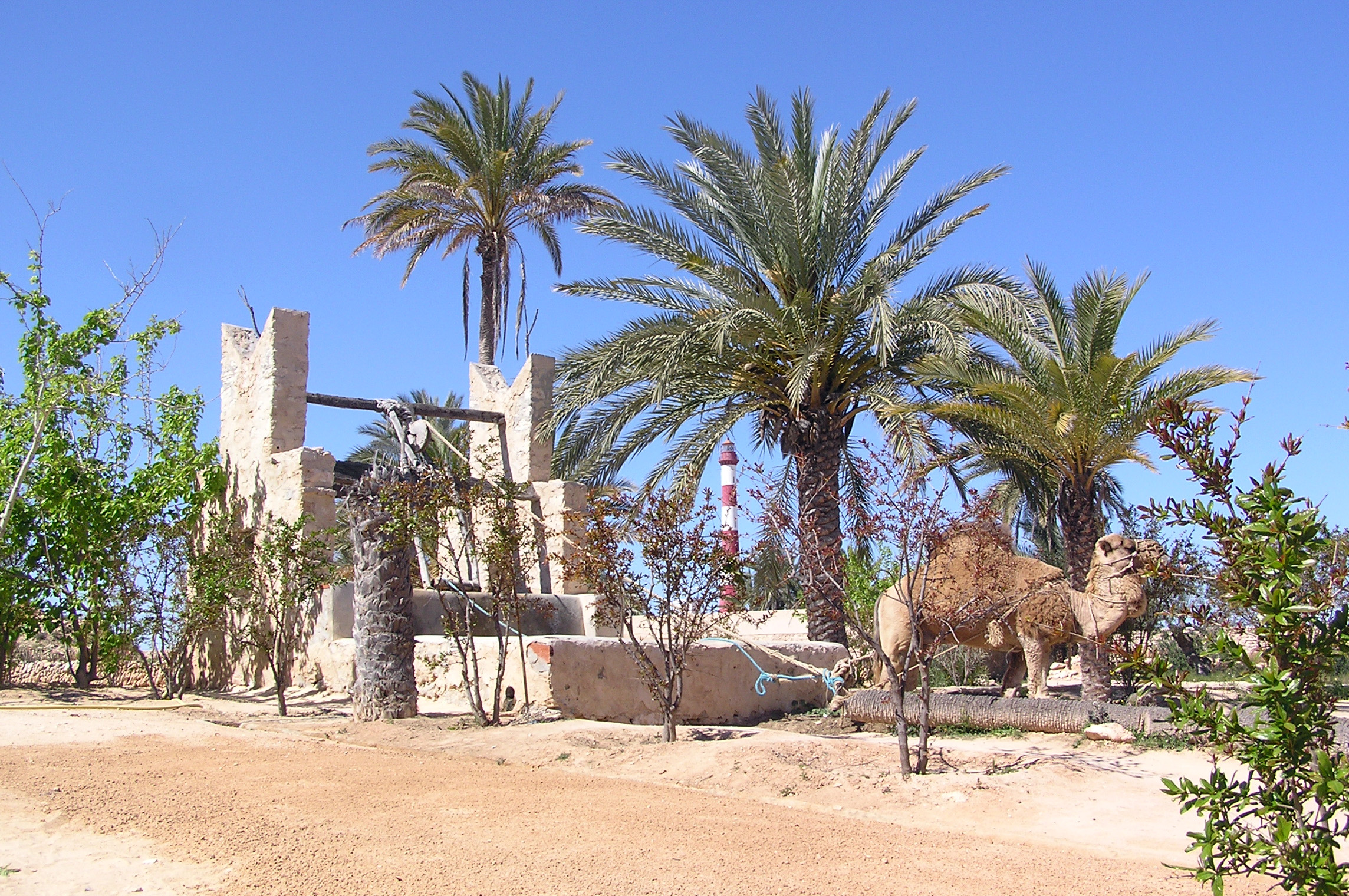 Old well with a camel in Djerba, Tunisia